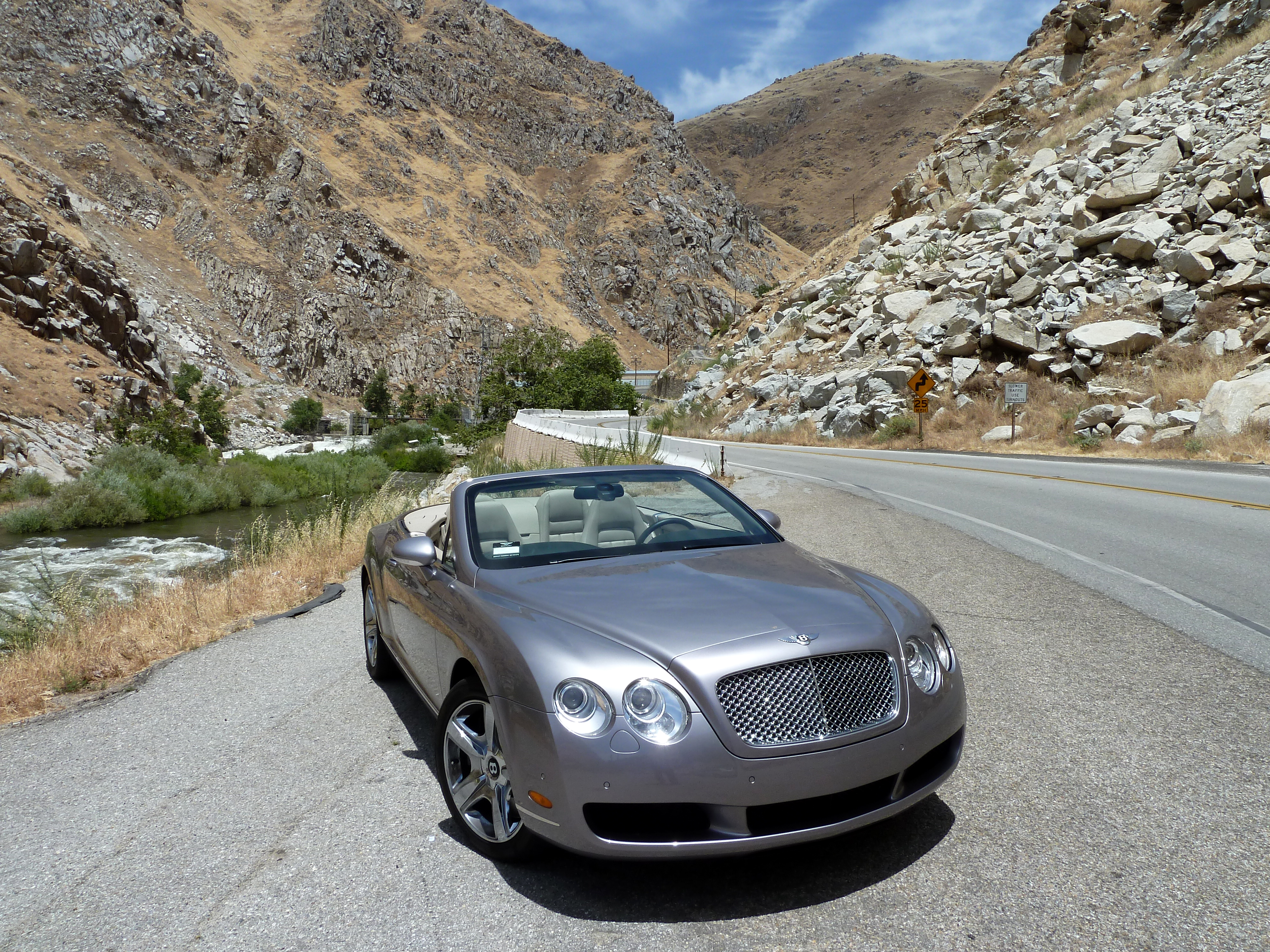 2010 Bentley Continental GTC, alongside Highway 178 and the Kern River Canyon near Bakersfield, California, USA.